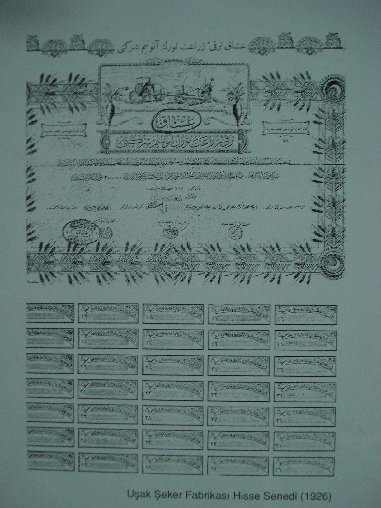 share certificate of Uşak Sugar Factory